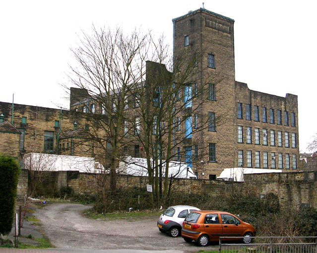 Woodhouse's Mill, Town Street, Farsley